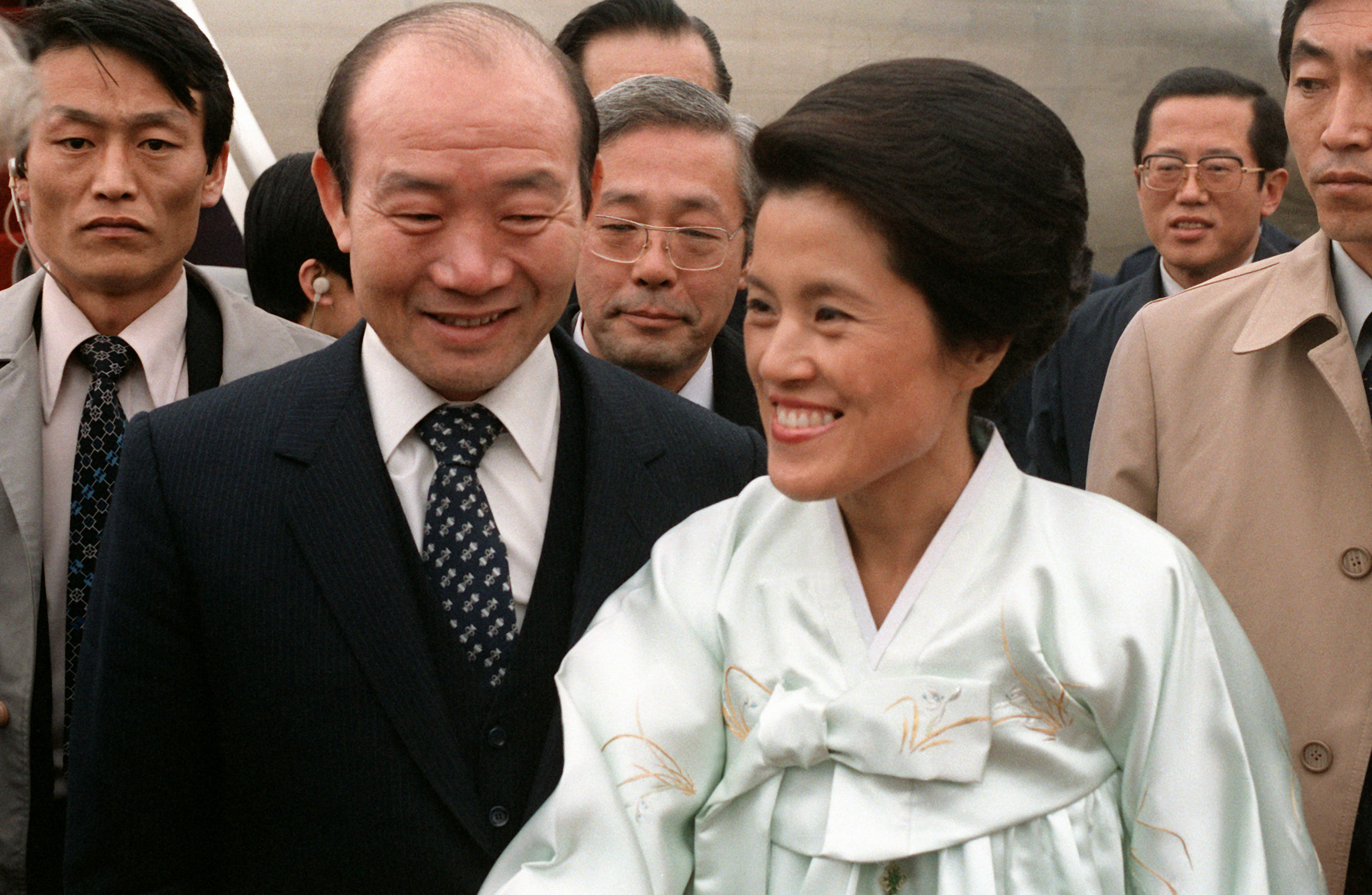 President Chun, Republic of South Korea, and his wife Lee SoonJa prepare to depart after their visit to Washington D.C.